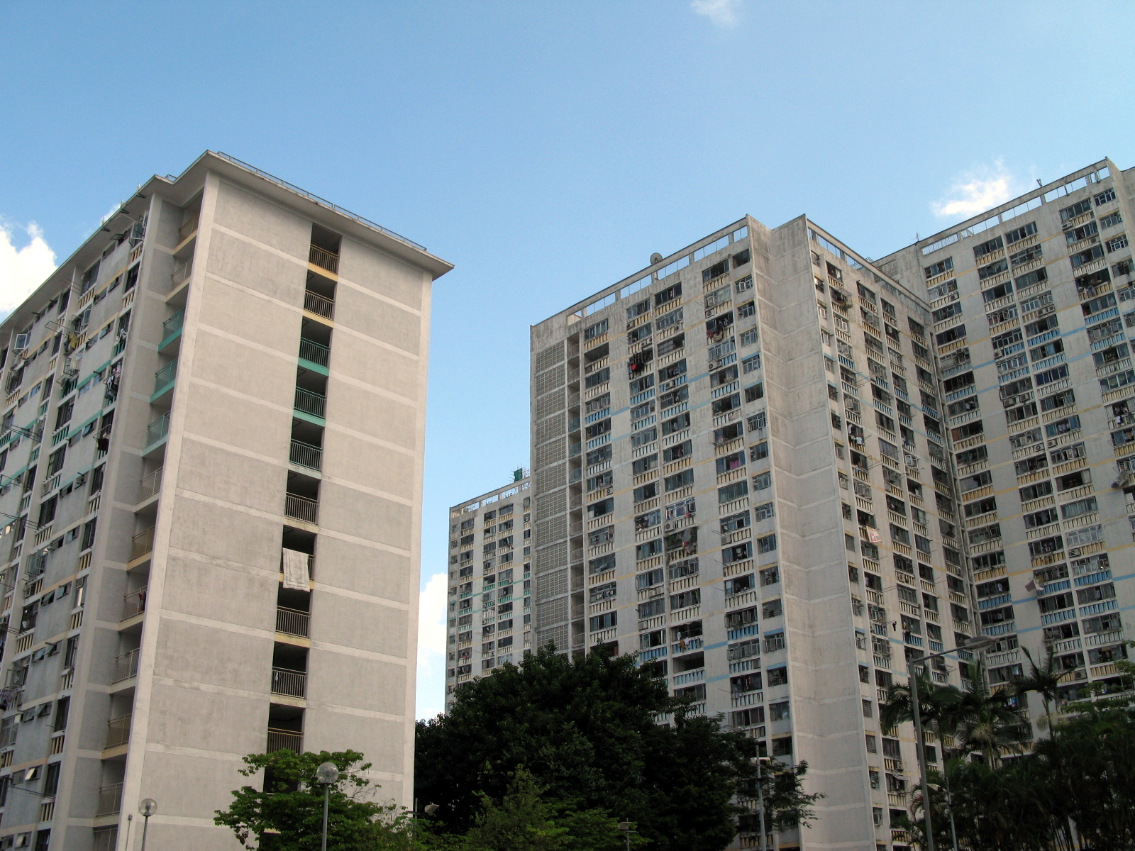 HK Shatin Wo Che Estate overview 1